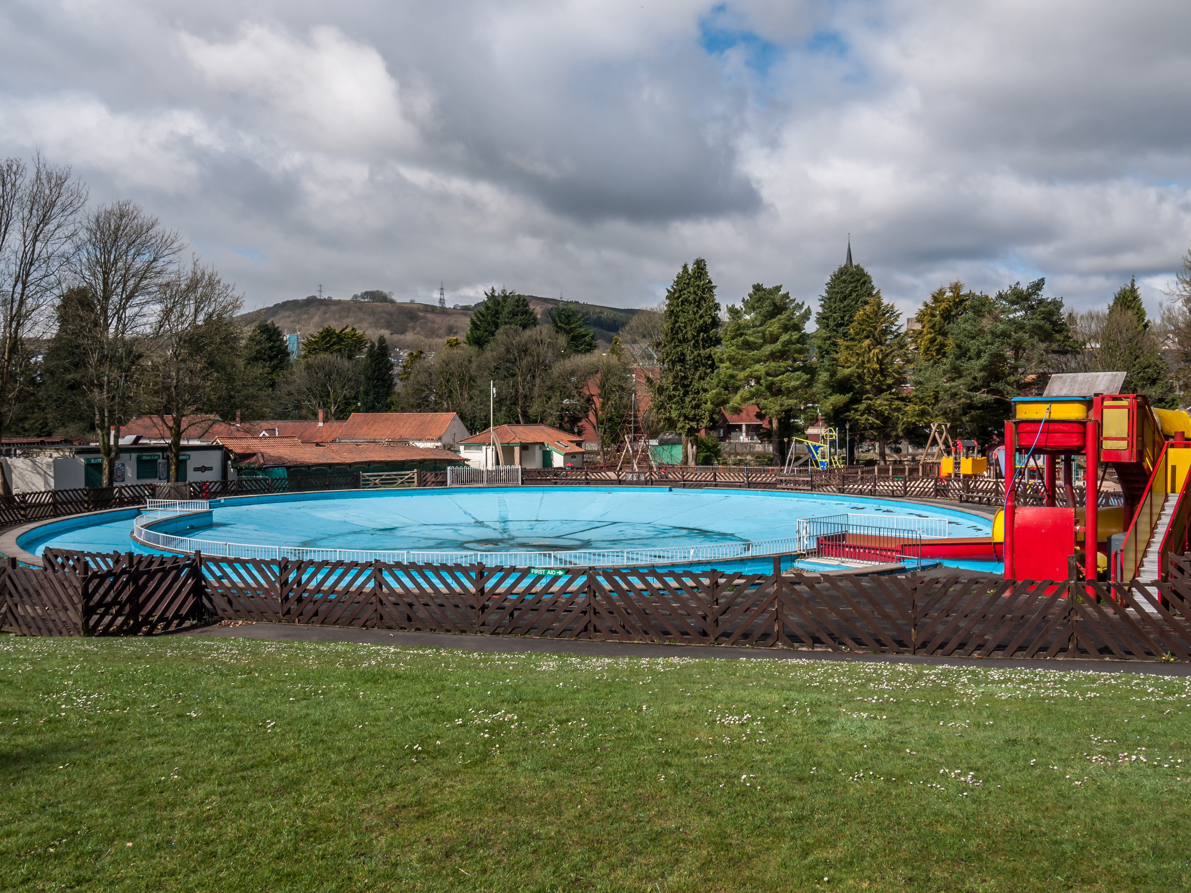 The paddling pool earmarked for removal in Ynysangharad Park, Pontypridd, south Wales.